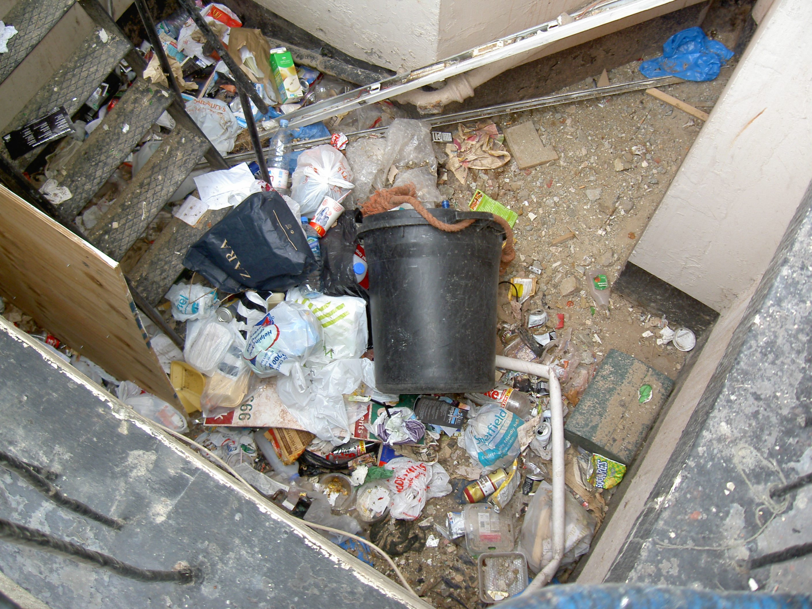 It's a picture of waste in the entrance of a house in the Royal Borough of Kensington and Chelsea in London. With this picture, I tryed to express that the trash reaches all the places of the Earth, even in the most unsuspected places.